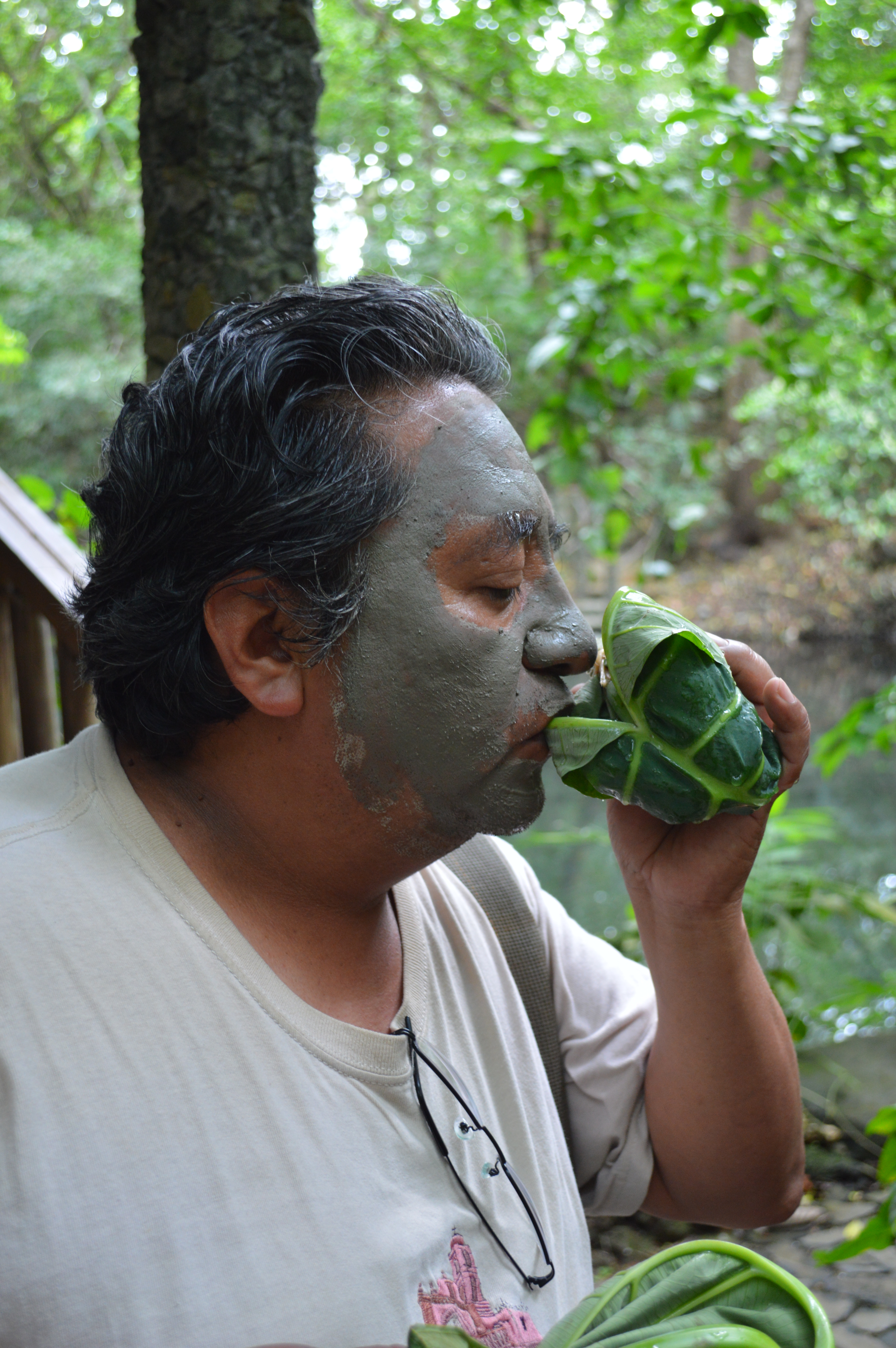 AlejandroLinaresGarcia drinking from a folded leaf used as a disposible cup to drink from the mineral spring at Nanciyaga Ecological Park in Catemaco, Veracruz